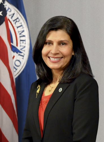 Huban A. Gowadia, Deputy Administrator and later Acting Administrator for TSA from 2016 to present